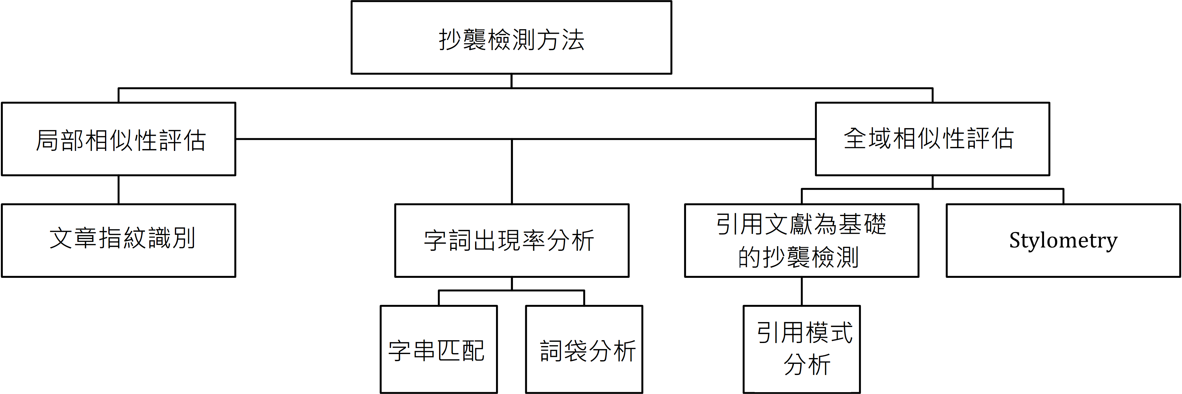 This figure summarizes the main approaches used by computer-assisted plagiarism detection systems 中文（台灣）: 此圖列出電腦輔助內容抄襲檢測系統的主要分類